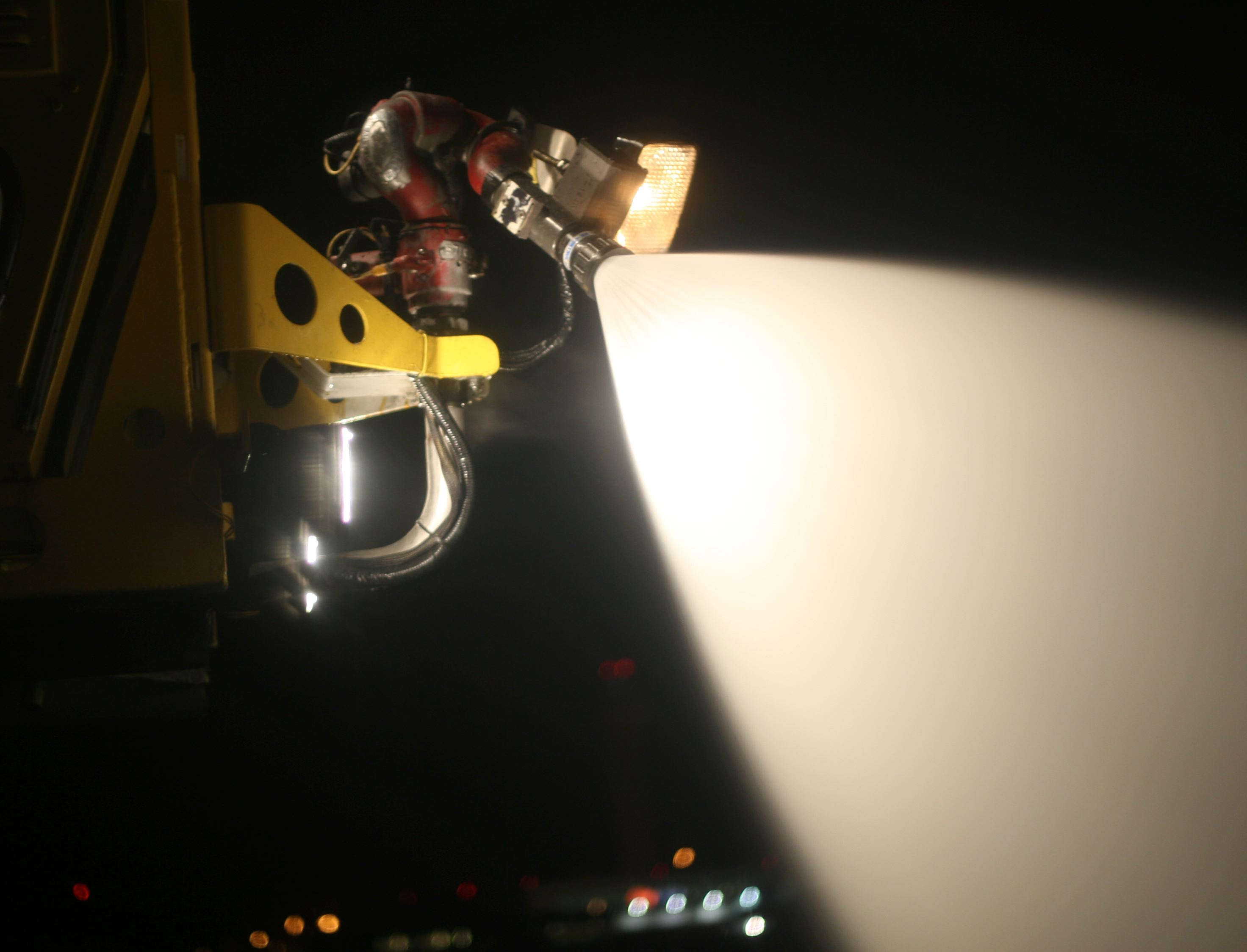 De-icing at SLC. I like the way the spray appears to be solid white.